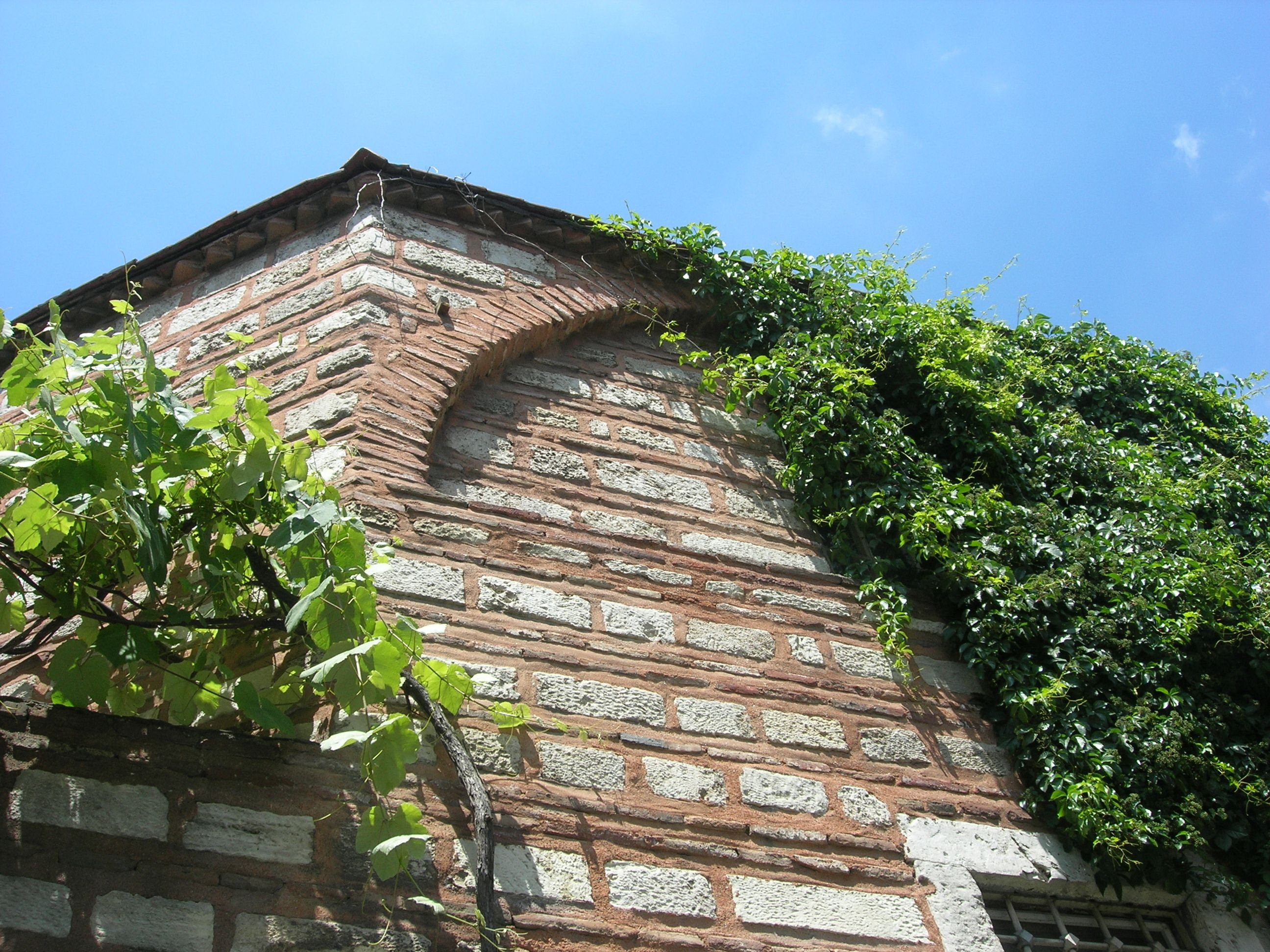 Particular of the former Mausoleum of the monastery of Gastria( today mosque of Sancaktar Hayrettin) in Istanbul viewed from SE